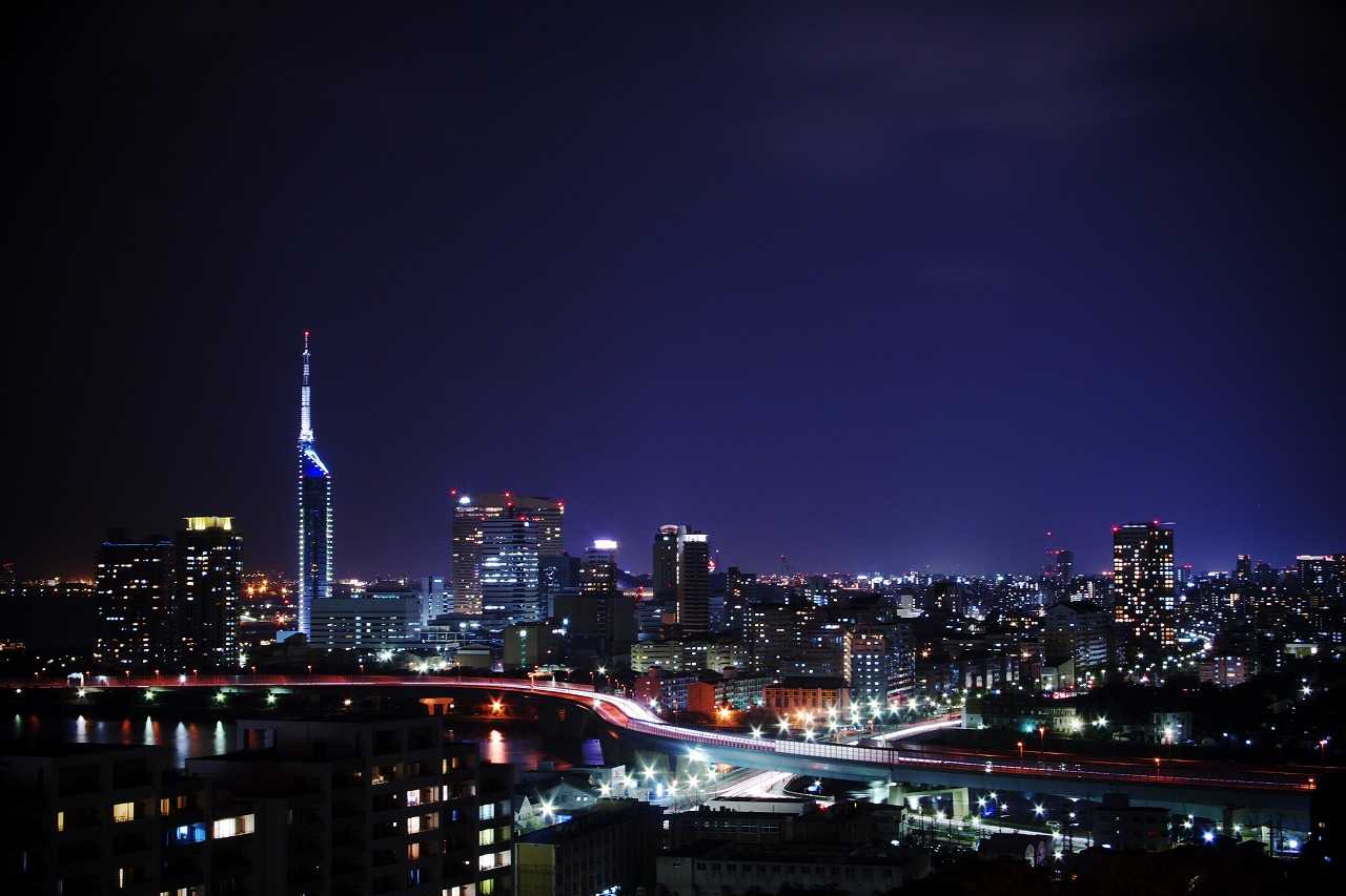 Night view of Fukuoka from Atago jinja